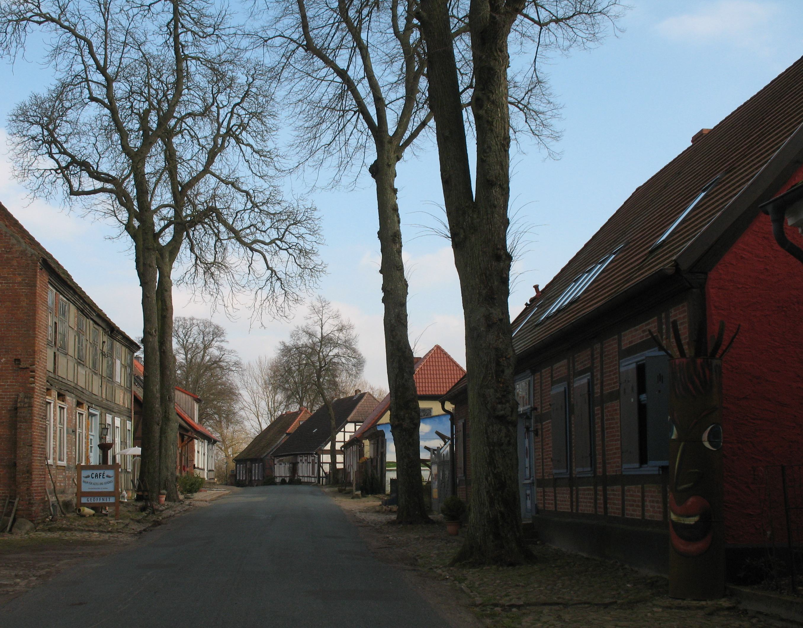 Kastanienallee in Lenzen in Brandenburg, Germany